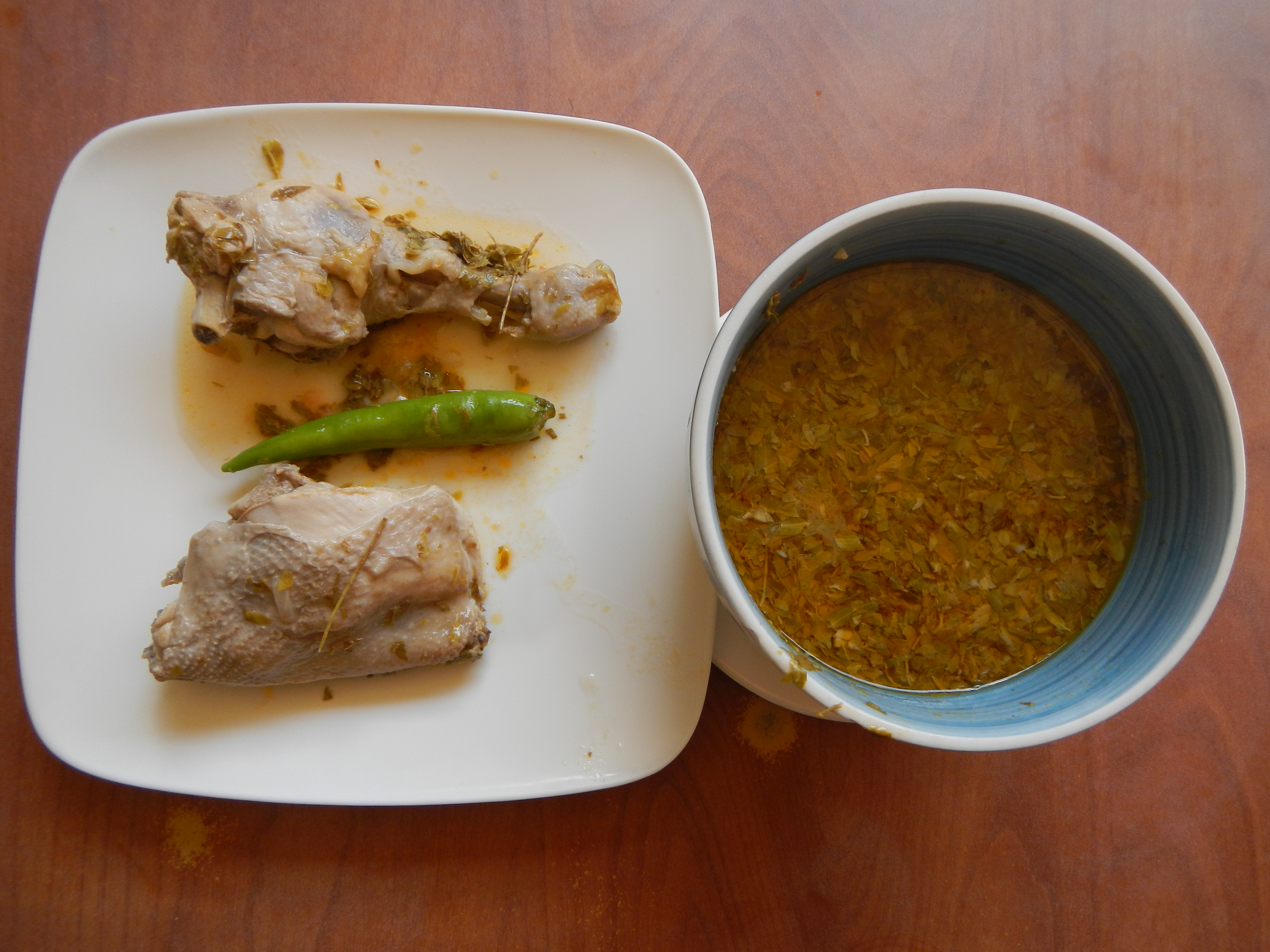 Sinampalukang manok